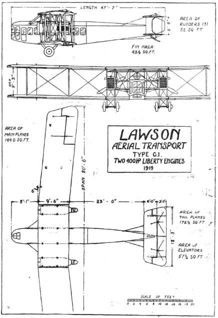 diagram of the 1919 Lawson Aerial Transport Type C.1 Transport